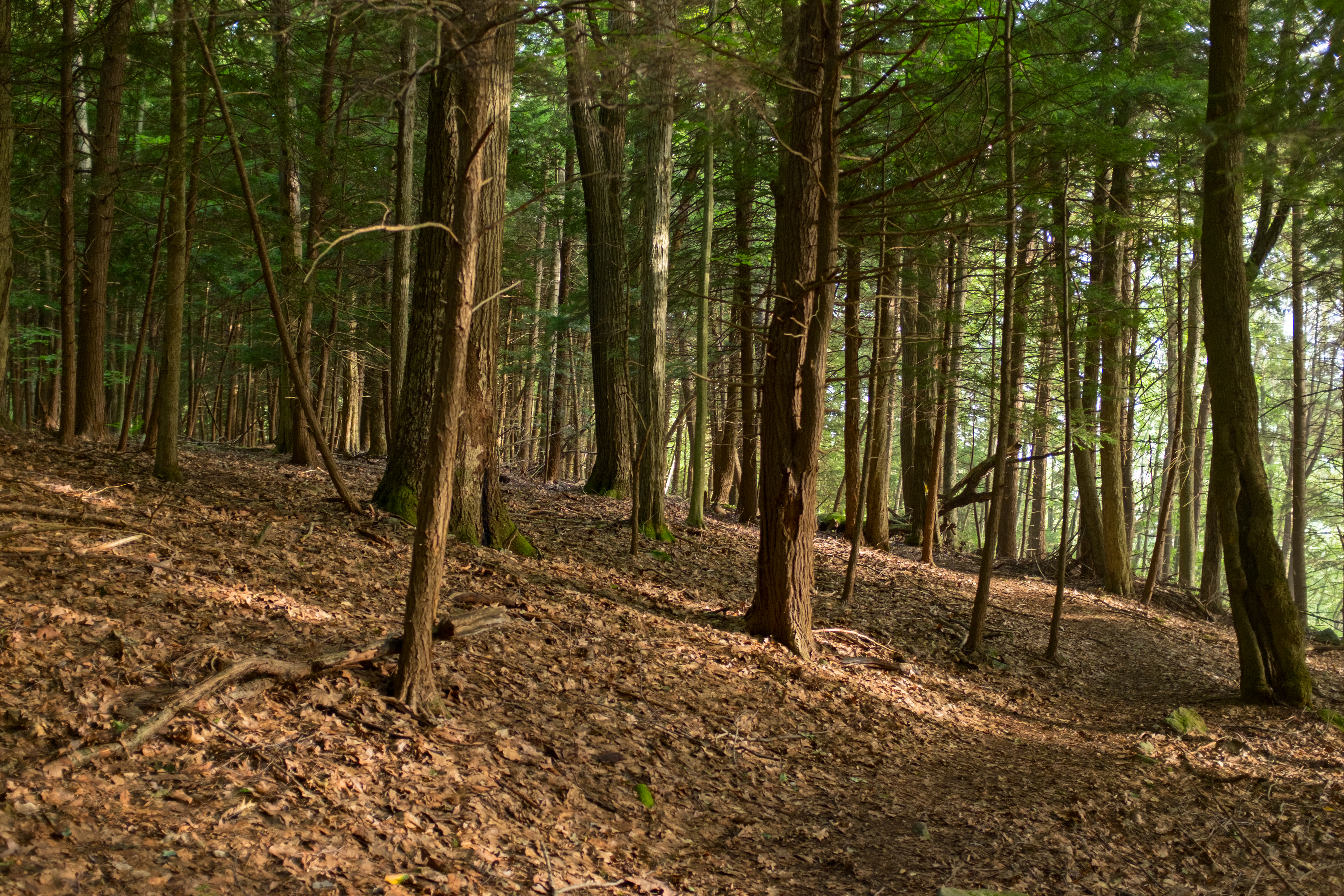 This is on the Hemlock trail, going towards the virgin forest (still over the hill). These trees are second growth trees